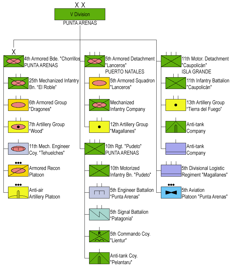 5. División del Ejército de Chile